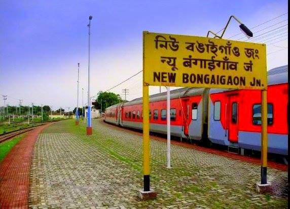 rajdhani express stay at NBQ